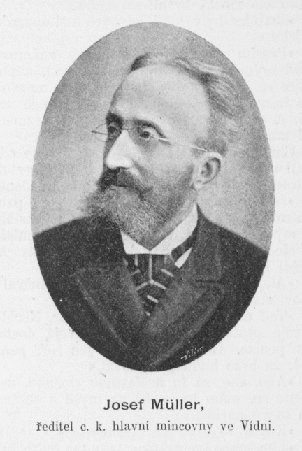 Portrait of Josef Müller (1834-1910), Czech numismatist, director of the main Austrian mint in Vienna.